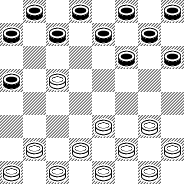 Tabia opening Kol (russian checkers)